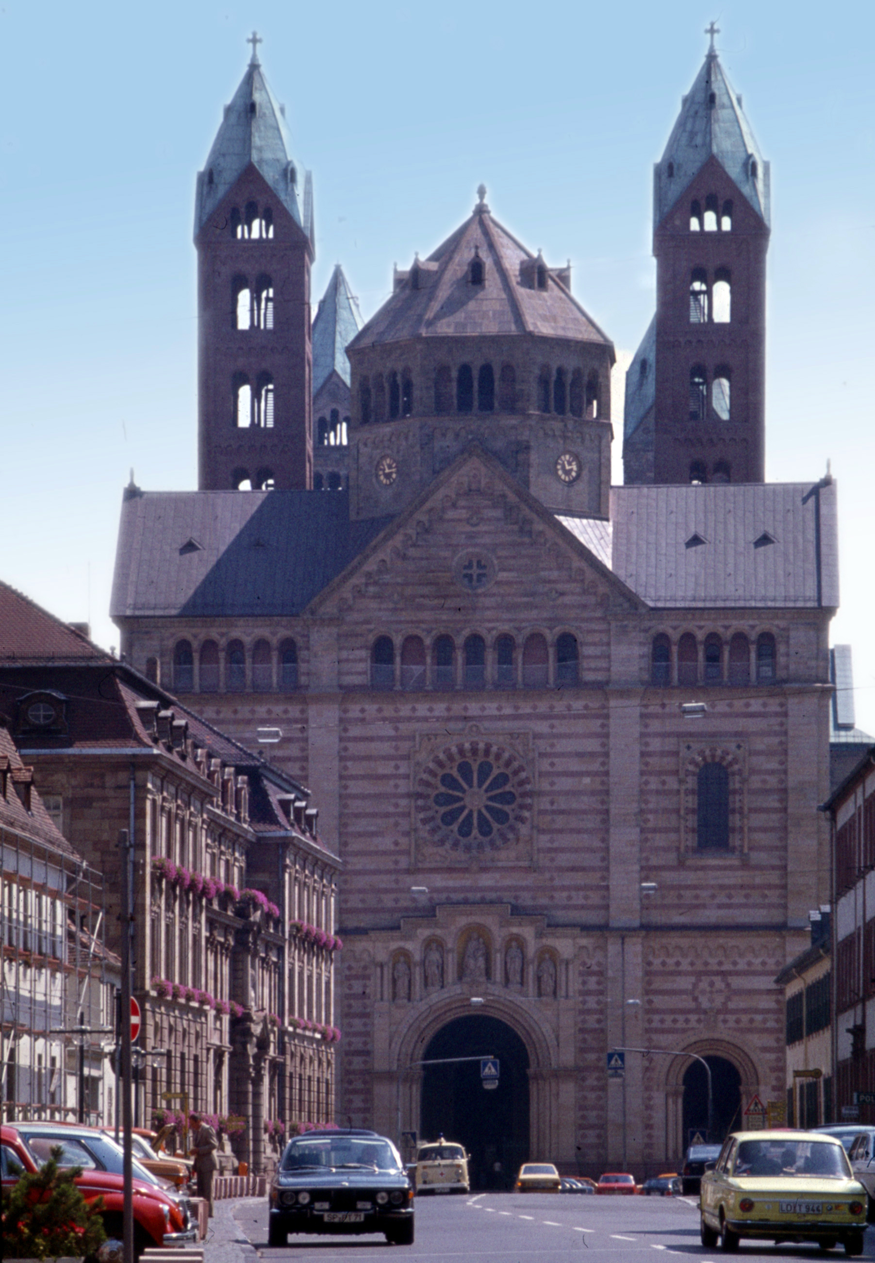 Speyer cathedral